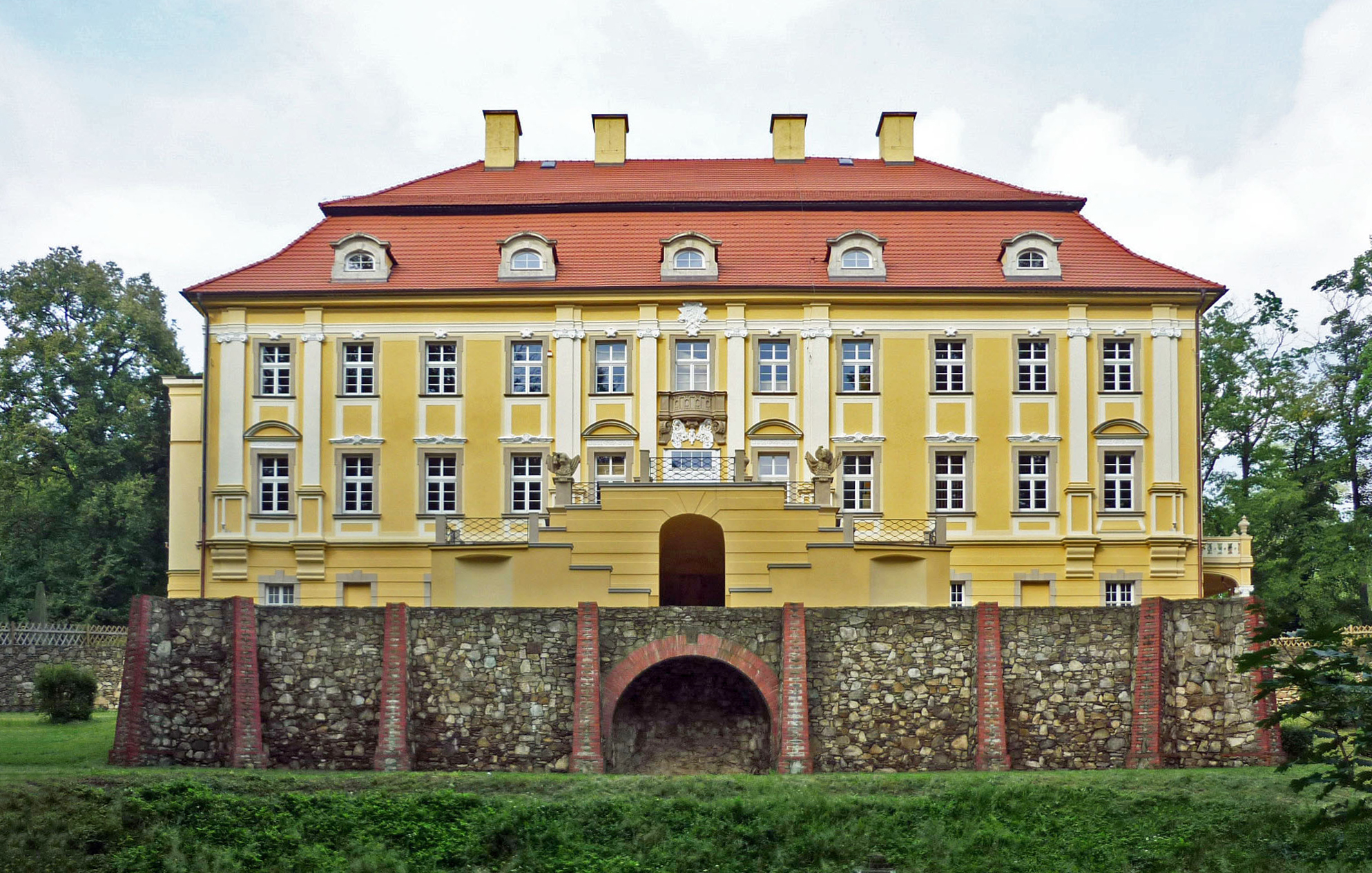 Palace in Biedrzychowice, Poland